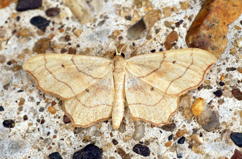 Catch Report - 19/07/11 - Farmland/Back Garden - Hertfordshire A very quiet night, with little about, although in these quiet lulls sometimes it still is worth running the trap, I was rewarded with Trachycera suavella a new Pyralid moth for me. Other species of note included Small Scallop, 2 more of the uncommon Micro moth Eucosma obumbratana and plenty of Ruby Tiger's. Catch Report - 19/07/11 - 1x 125w MV Robinson Trap - Farmland/back garden Macro Moths 1x Broad-bordered Yellow Underwing 1x Buff-tip 20x Common Footman 1x Common Rustic 14x Dark Arches 3x Double Square-spot 2x Dusky Sallow 9x Dwarf Cream Wave 3x Heart & Dart 6x Large Yellow Underwing 5x Latticed Heath 1x Least Carpet 1x Lesser Broad-bordered Yellow Underwing [NFY] 2x Mottled Beauty 4x Nutmeg 1x Privet Hawk-moth 6x Riband Wave 8x Ruby Tiger 3x Rustic 1x Scalloped Oak 5x Scarce Footman 1x Scorched Carpet 2x Small Fan-footed Wave 1x Small Scallop 1x Smoky Wainscot 19x Uncertain 1x White Satin Micro Moths 1x Trachycera suavella [NEW!] 2x Cnephasia sp. 2x Eucosma obumbratana 1x Brown House-moth Hofmannophila pseudospretella 5x Mother of Pearl Pleuroptya ruralis 2x Endotricha flammealis 22x Agapeta hamana 2x Marbled Orchard Tortrix Hedya nubiferana 2x Scoparia ambigualis 14x Cochylis atricapitana 1x Udea prunalis 48x Chrysoteuchia culmella 2x Celypha striana 4x Phycita roborella 1x Thistle Ermine Myelois circumvoluta 3x Celypha lacunana 7x Cochylis atricapitana 1x Ypsolopha scabrella 1x Catoptria falsella 1x Thistle Ermine Myelois circumvoluta 4x Dipleurina lacustrata 2x Crambus perlella 3x Eucosma cana